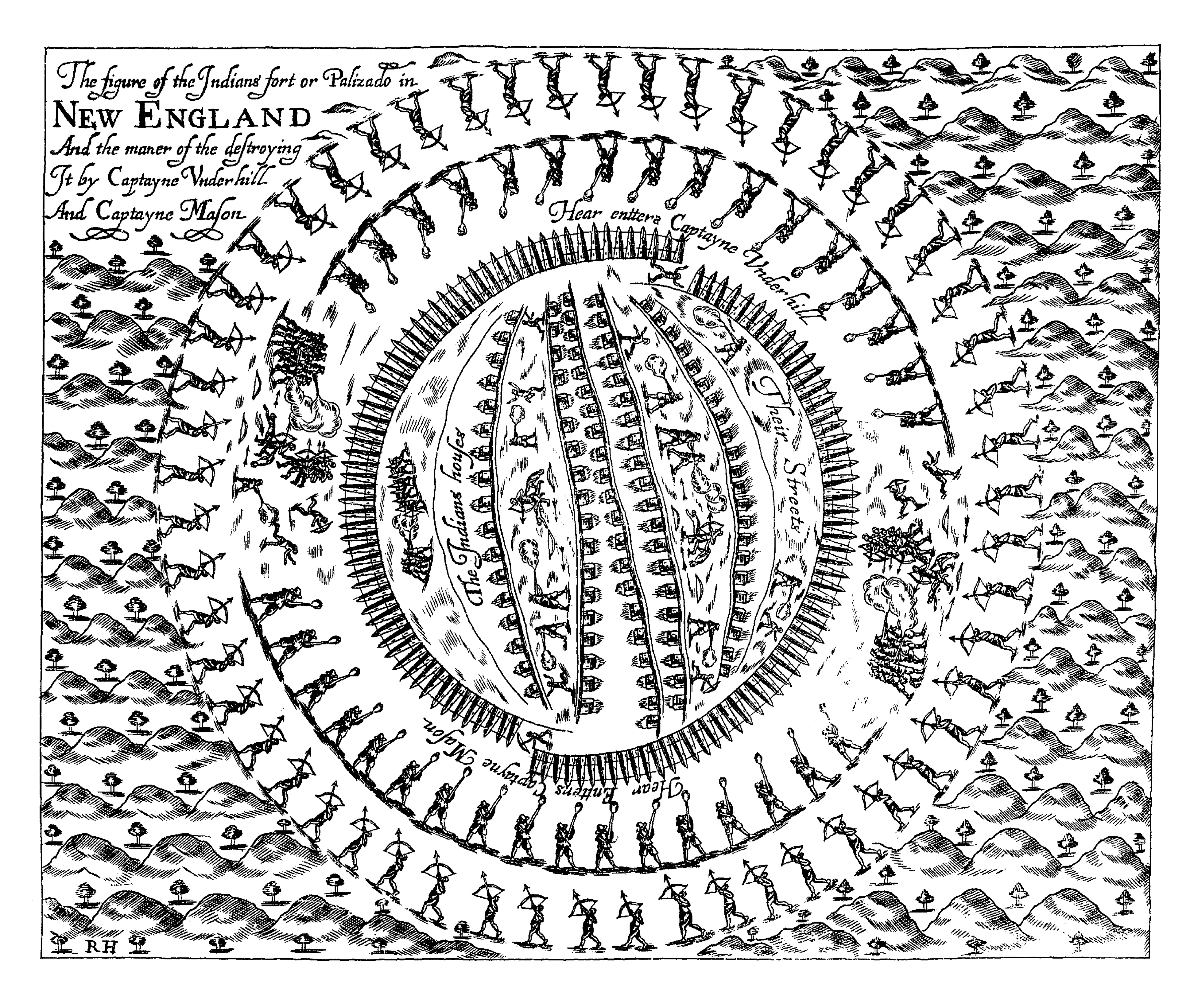 Engraving of a Pequot fort in Mystic, CT, taken by Massachusetts Bay colony forces in May 1637